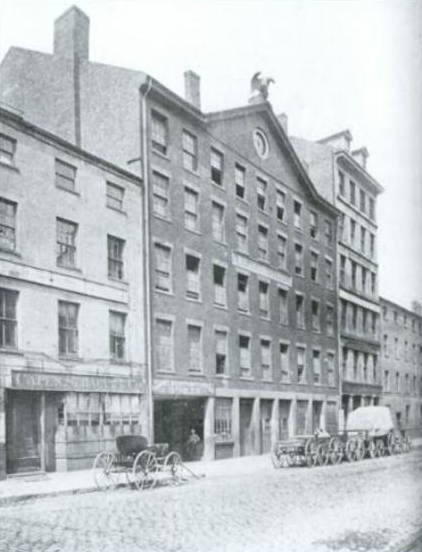 Boston, Massachusetts. The eagle on top of the Custom House building was carved by Solomon Willard. [1]